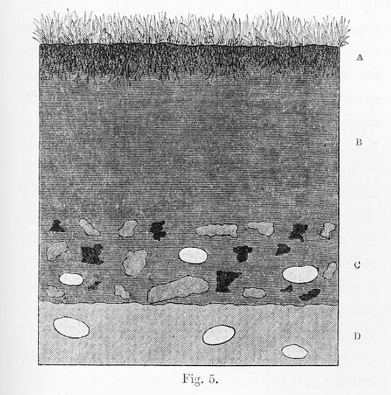 Section of the vegetable mould in a field, drained and reclaimed 15 years previously. A: turf; B: vegetable mould without any stones; C: mould with fragments of burnt marl, coal-cinders and quartz pebbles; D: subsoil of black, peaty sand with quartz pebbles.